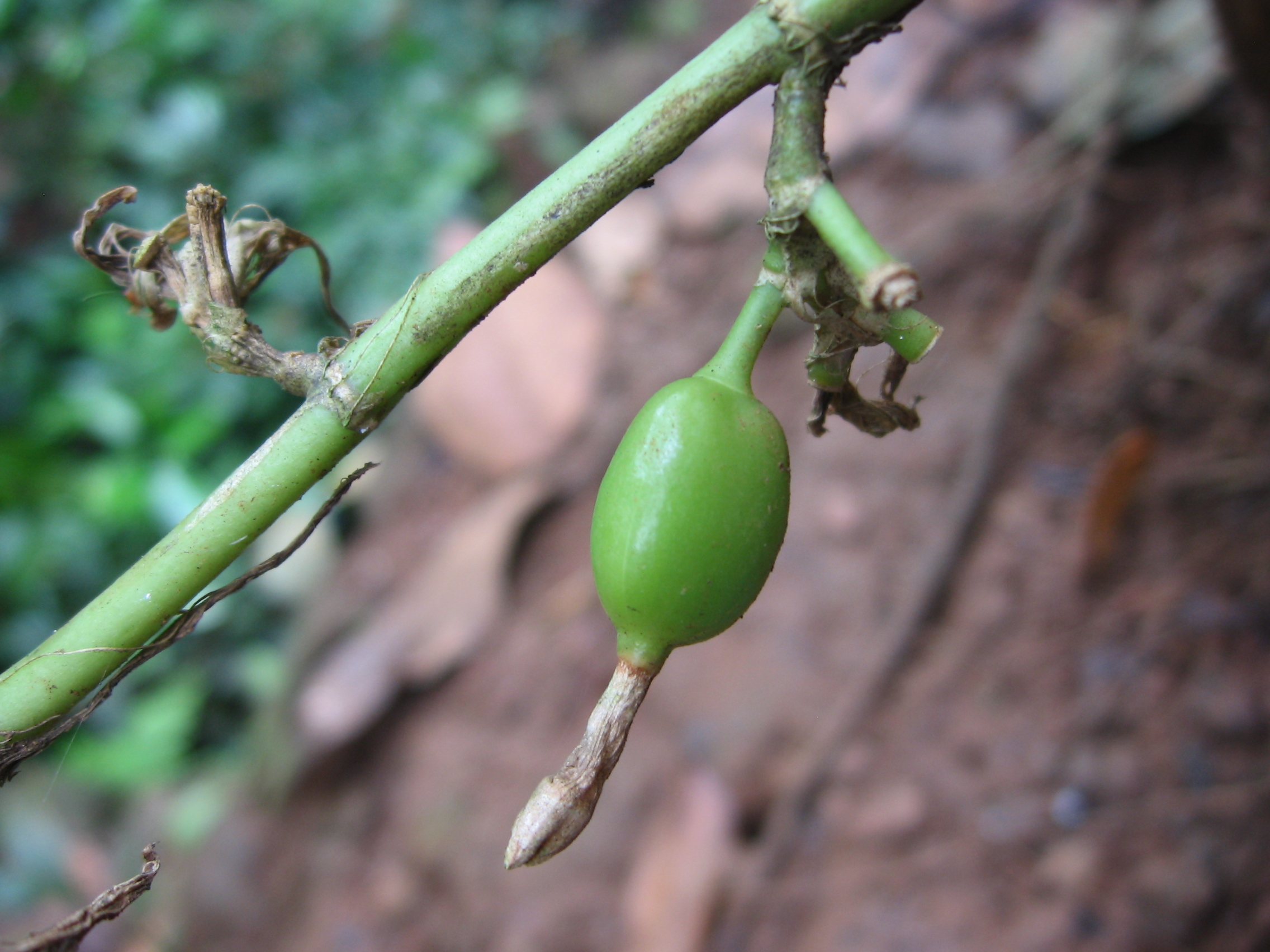 Cardamom